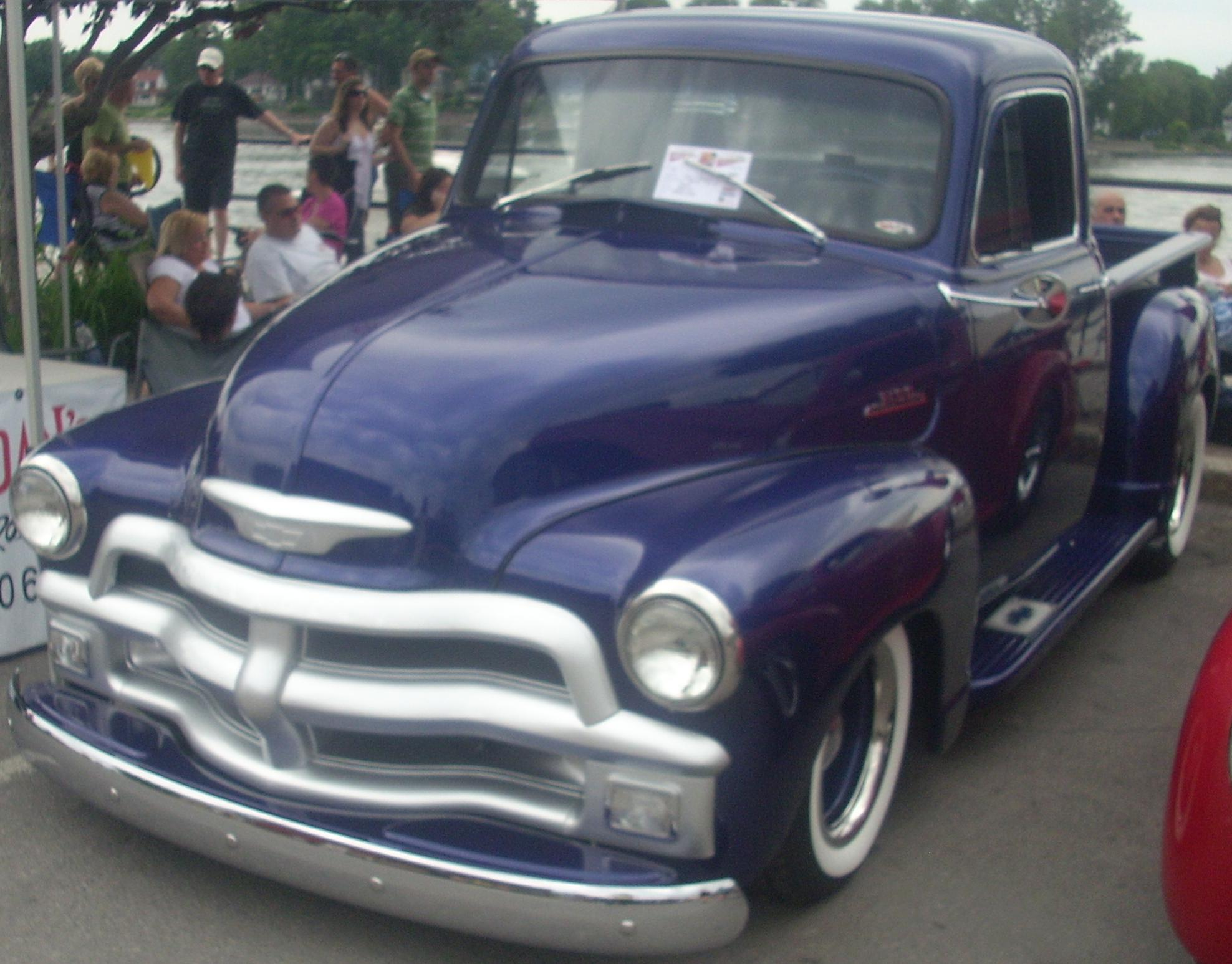 1954 Chevrolet Advance Design photographed in Ste. Anne De Bellevue, Quebec, Canada at Cruisin' At The Boardwalk 2010.